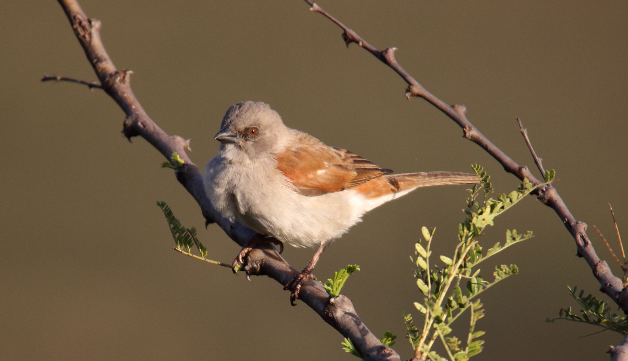 Swahili Sparrow (Passer suahelicus)